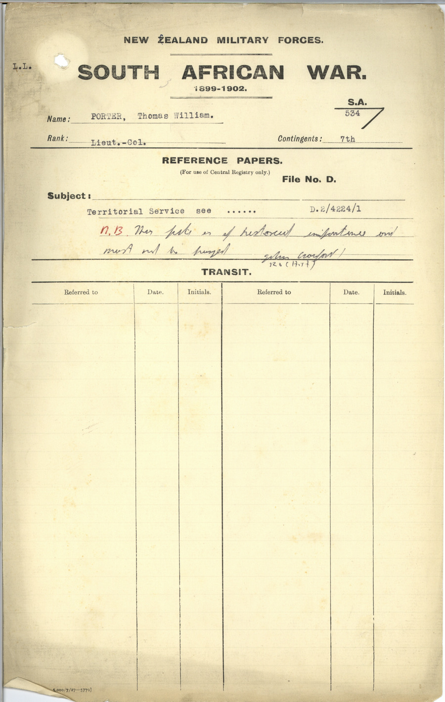 Personnel file of PORTER, Thomas William - SA4224 - Army (1899 - 1902). Archives New Zealand reference: AABK 18805 W5515 80 / 0006434